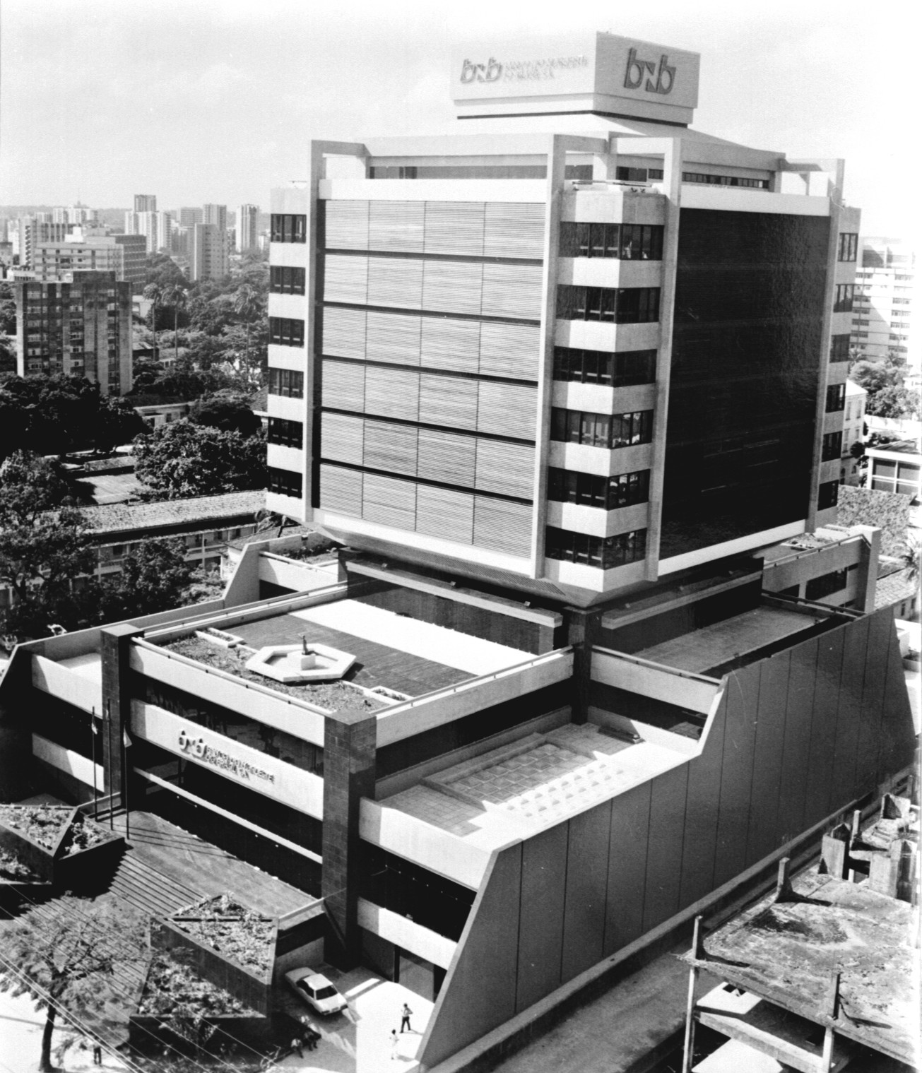 Brazil's Northeast Bank Headquarter. Designed by Antonio Caramelo.